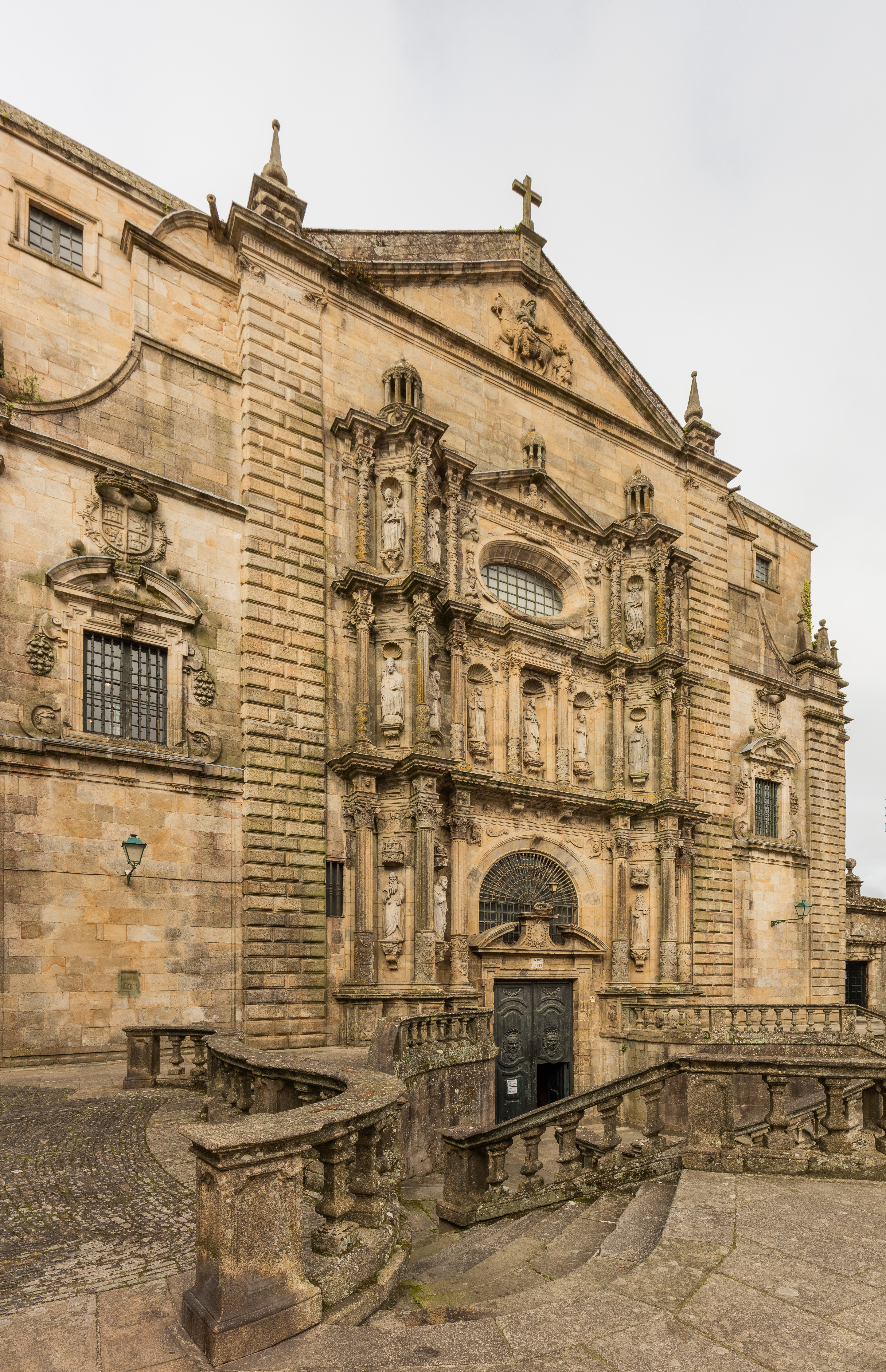 San Martin Monastery, Santiago de Compostela, Spain